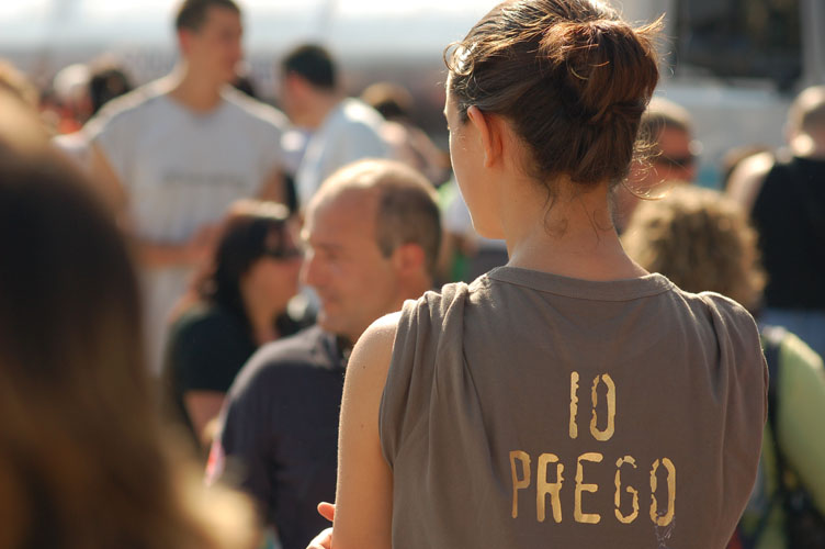 Family Day, 12th may 2007, Piazza san Giovanni, Rome